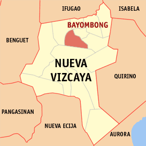 Map of Nueva Vizcaya showing the location of Bayombong